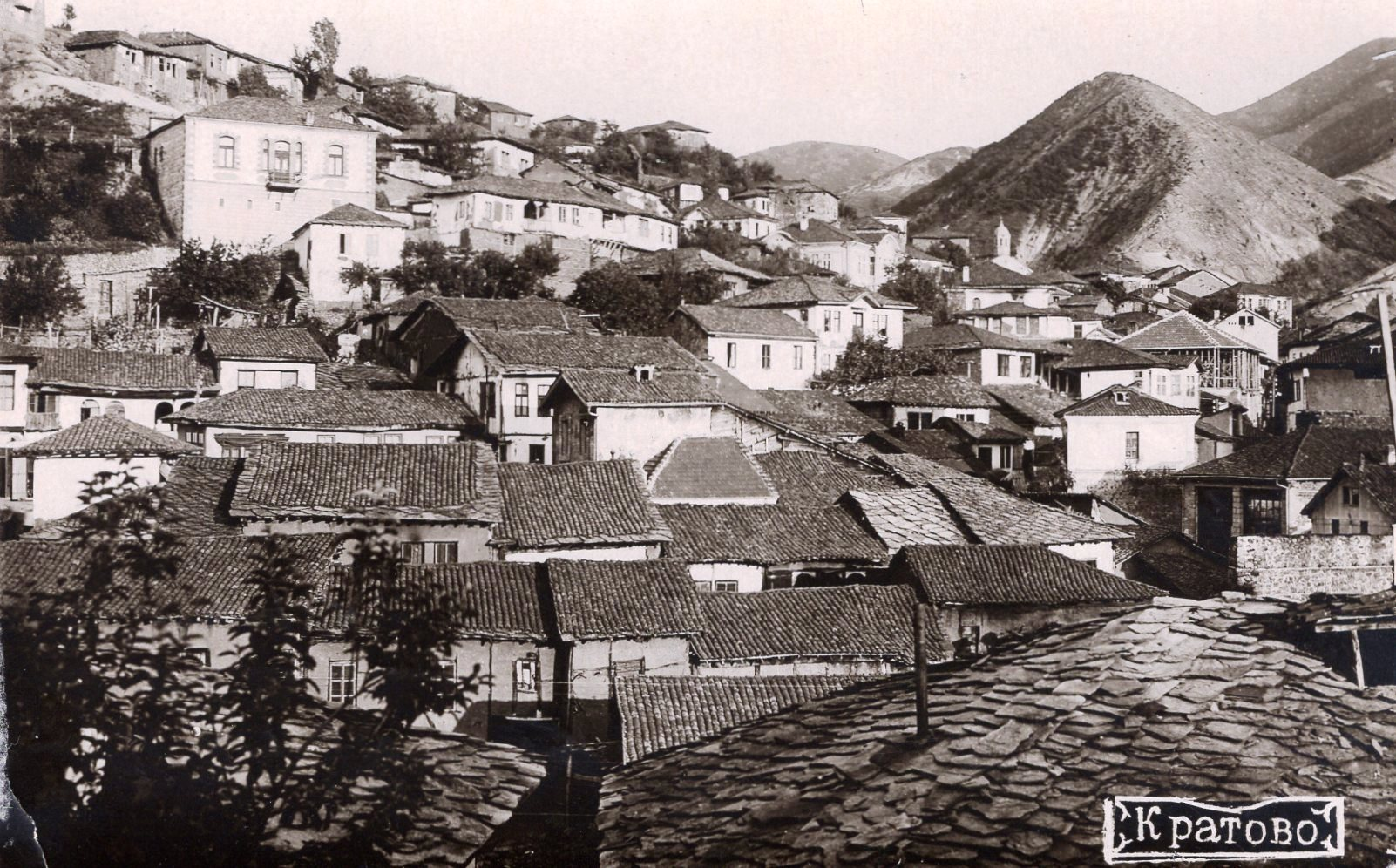 Postcard of Kratovo, Macedonia from 1930's This media file is produced by Wikipedian in Residence in Category:Wikipedian in Residence at DARM in 2016.